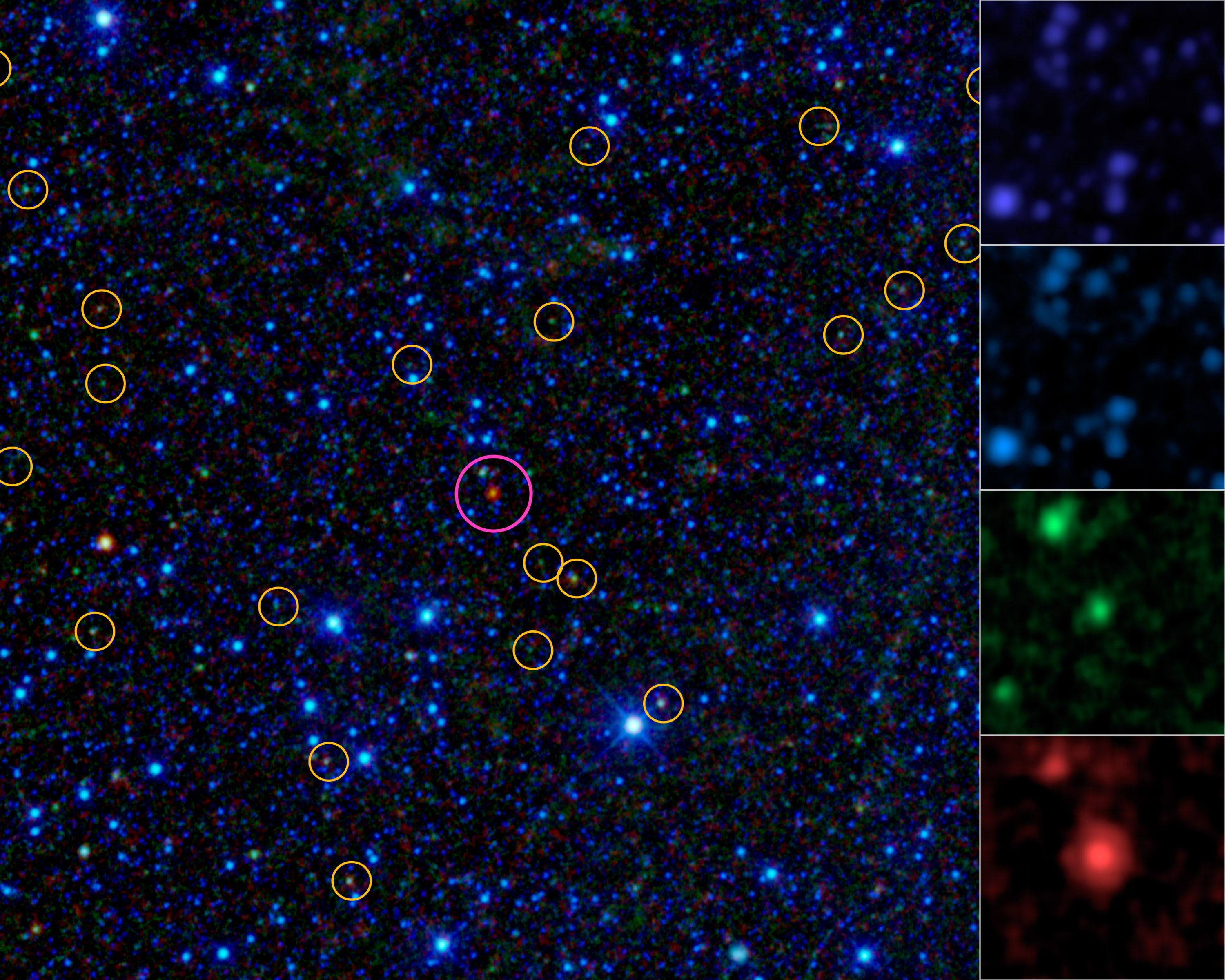 This image is a portion of the all-sky survey from NASA's Wide-field Infrared Survey Explorer, or WISE. It highlights the first of about 1,000 "hot DOGs" found by the mission (magenta circle). Hot DOGs are hot dust-obscured galaxies and are among the most powerful galaxies known. Yellow circles are active supermassive black holes found by WISE, which are much more common. The panels at right show the "Hot DOG" as seen in the four individual infrared bands obtained by WISE. These images are at wavelengths from 5 to 30 times redder than what our eyes can see, with the shortest wavelengths at top, and longest at bottom. Dust affects shorter wavelengths more than longer wavelengths. These objects are so dusty that not only their visible light but also their shorter-wavelength infrared light is blocked, as evident by their apparent absence in the top two panels. Less than one in 100,000 WISE sources are similarly prominent only in the two longer-wavelength WISE infrared bands.